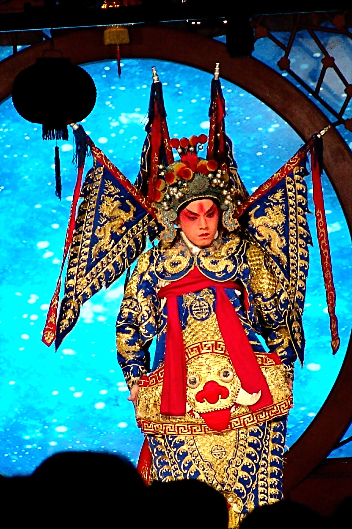 A male character from Beijing opera in Beijing